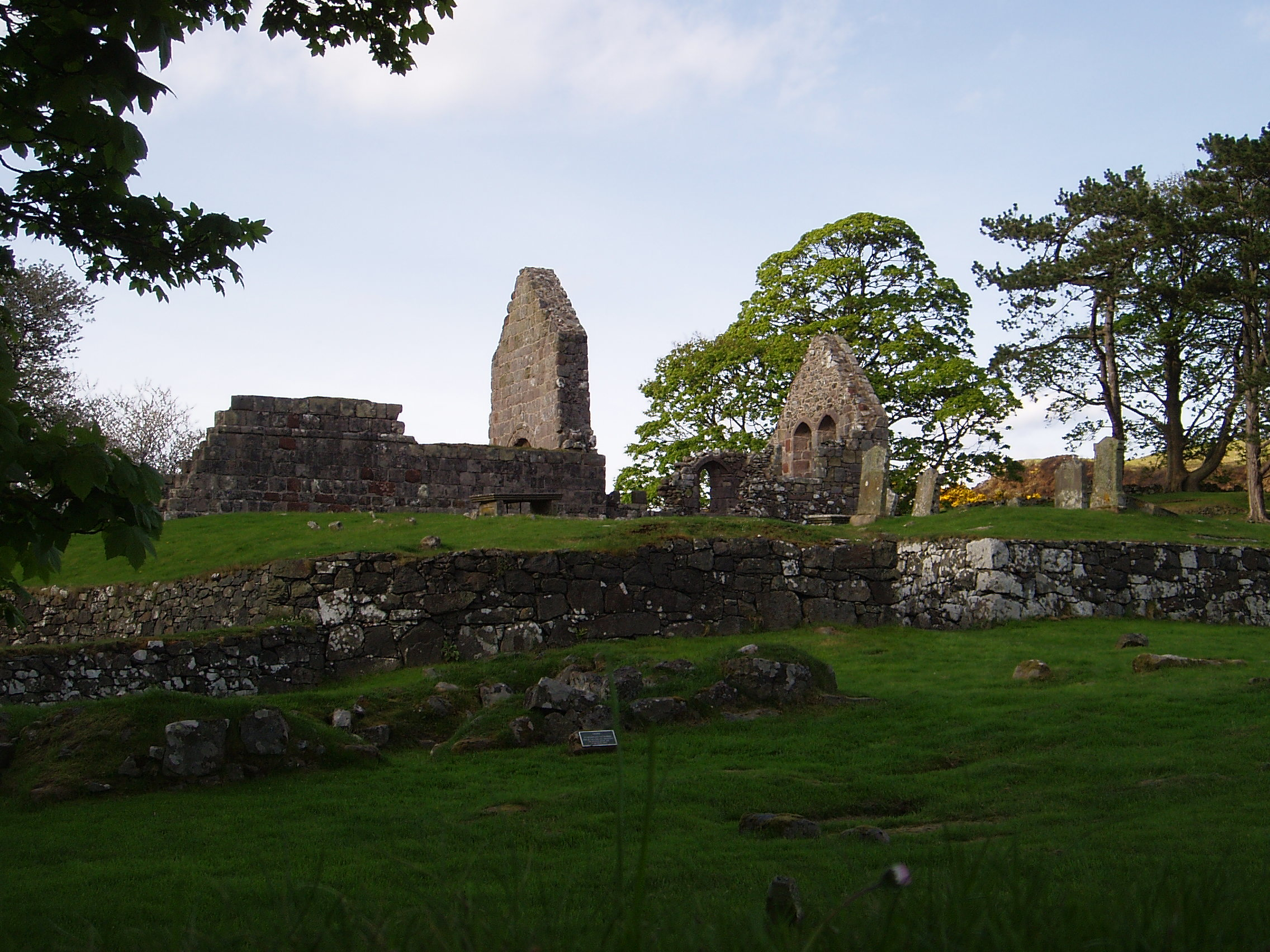 View of St Blane's Church on Bute from the surrounding wall up the hill.